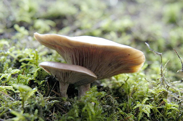 Melanoleuca brevipes from Commanster, Belgium. If you think this is a different taxon, please contact James Lindsey.